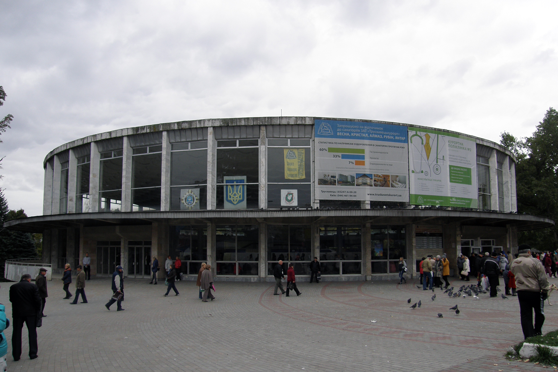 Truskavets